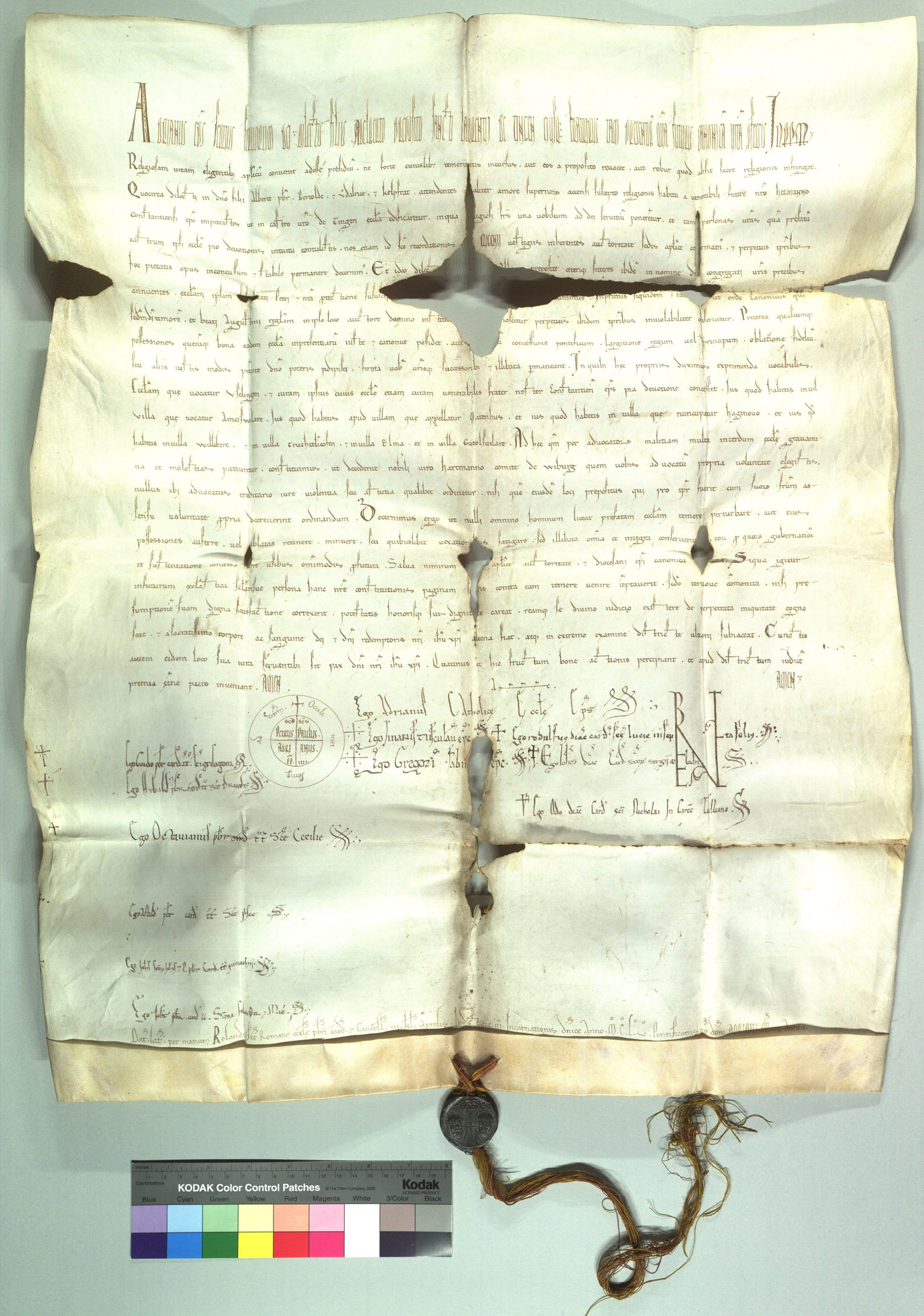 Papst Hadrian IV. bestätigt wie sein Vorgänger Eugen III. die Gründung des Stifts Ittingen, nimmt es in seinen Schutz und privilegiert es.